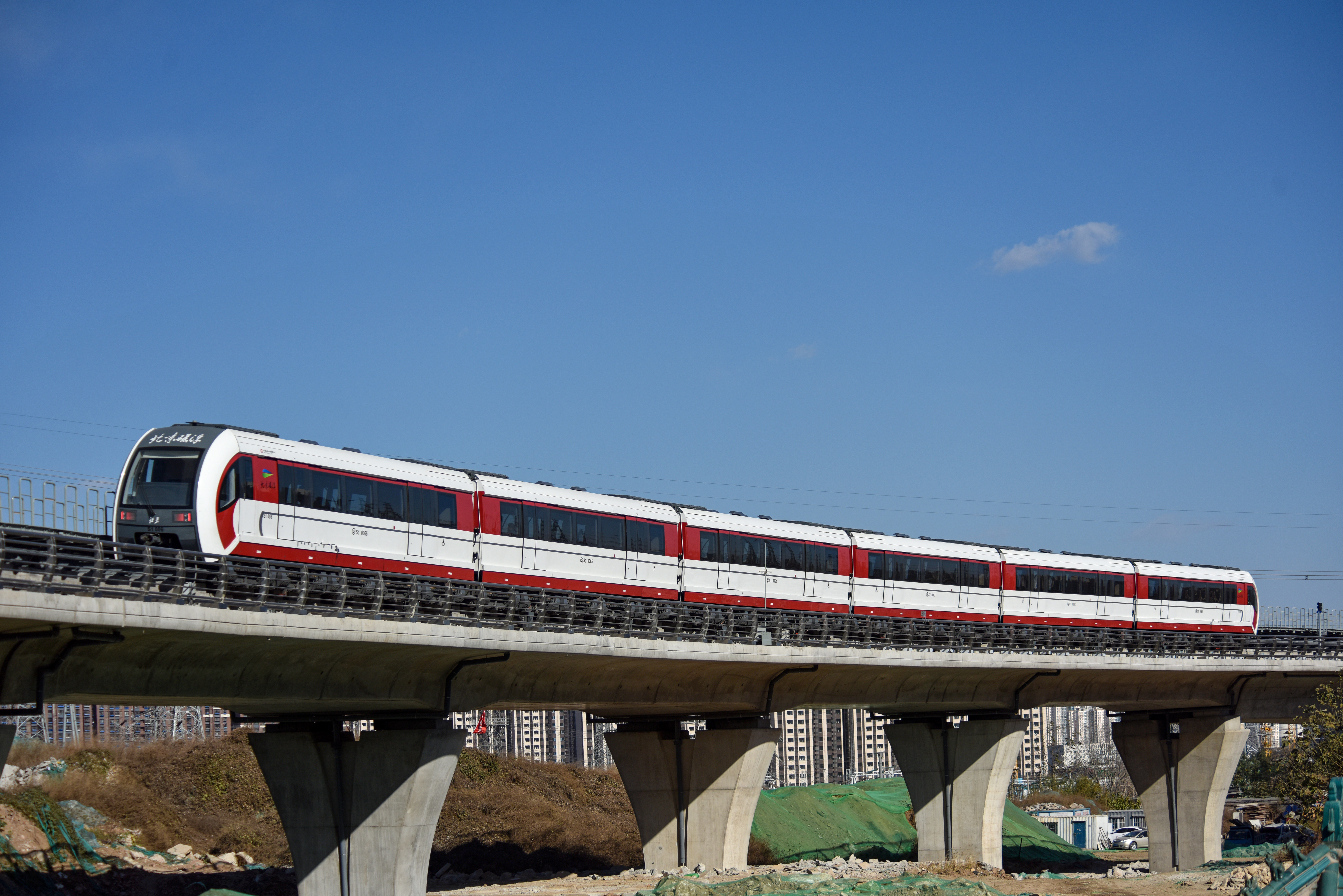 Another angle west of the bridge.